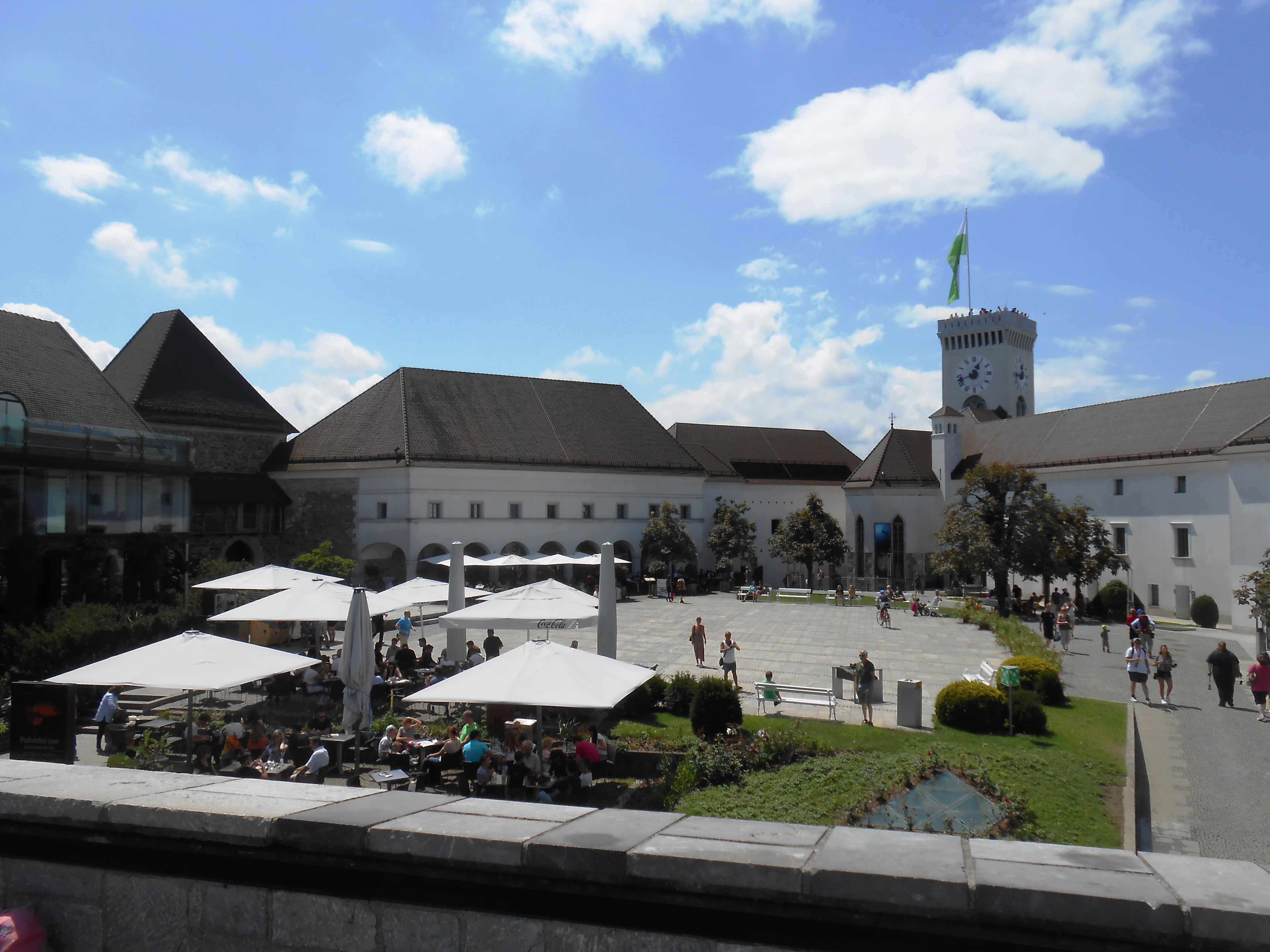 Ljubljana Castle, Ljubljana, Slovenia, 1